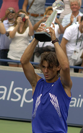 Rafael Nadal holding the 2008 Rogers Cup trophy